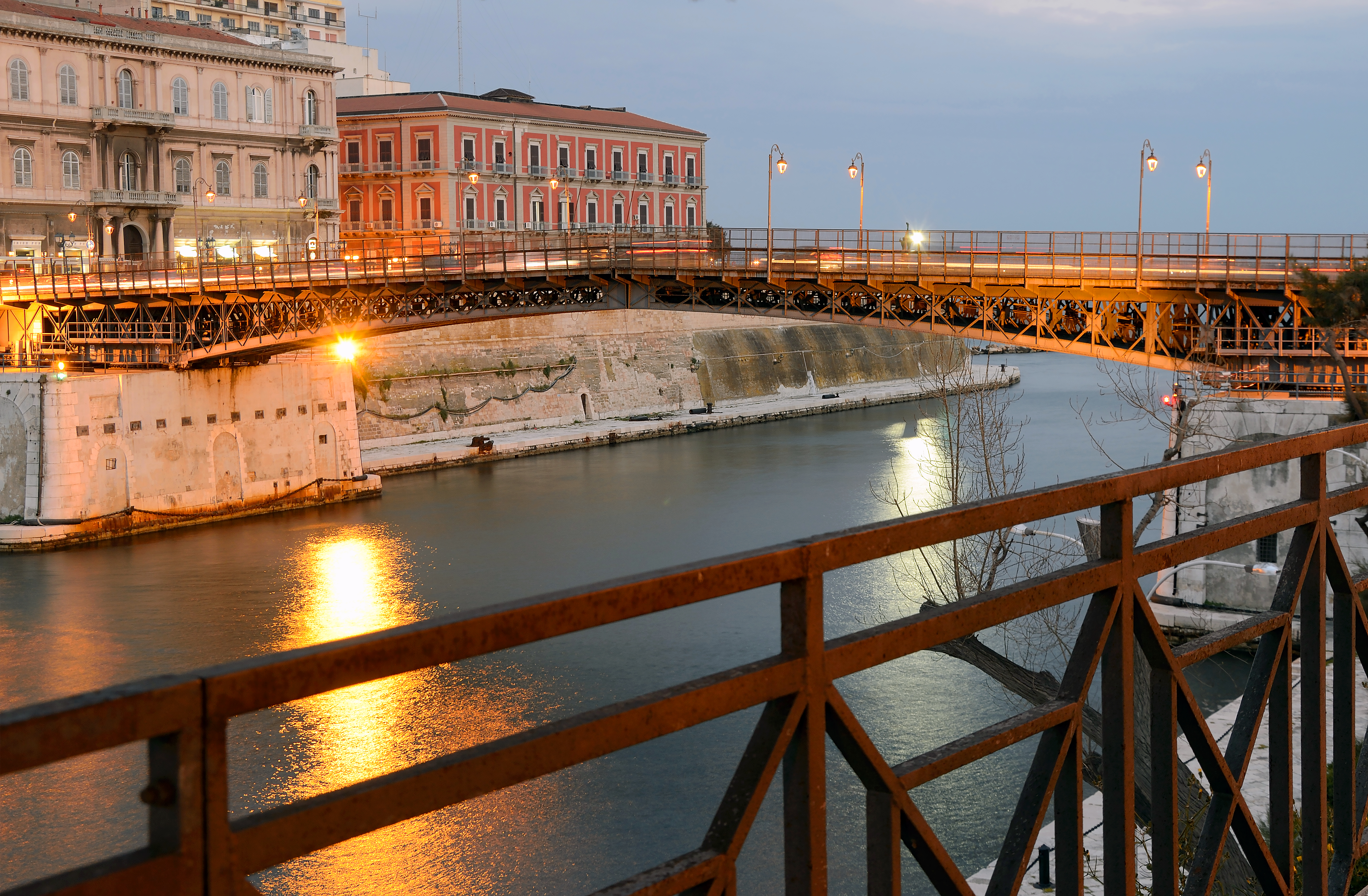 Ponte Girevole at Night